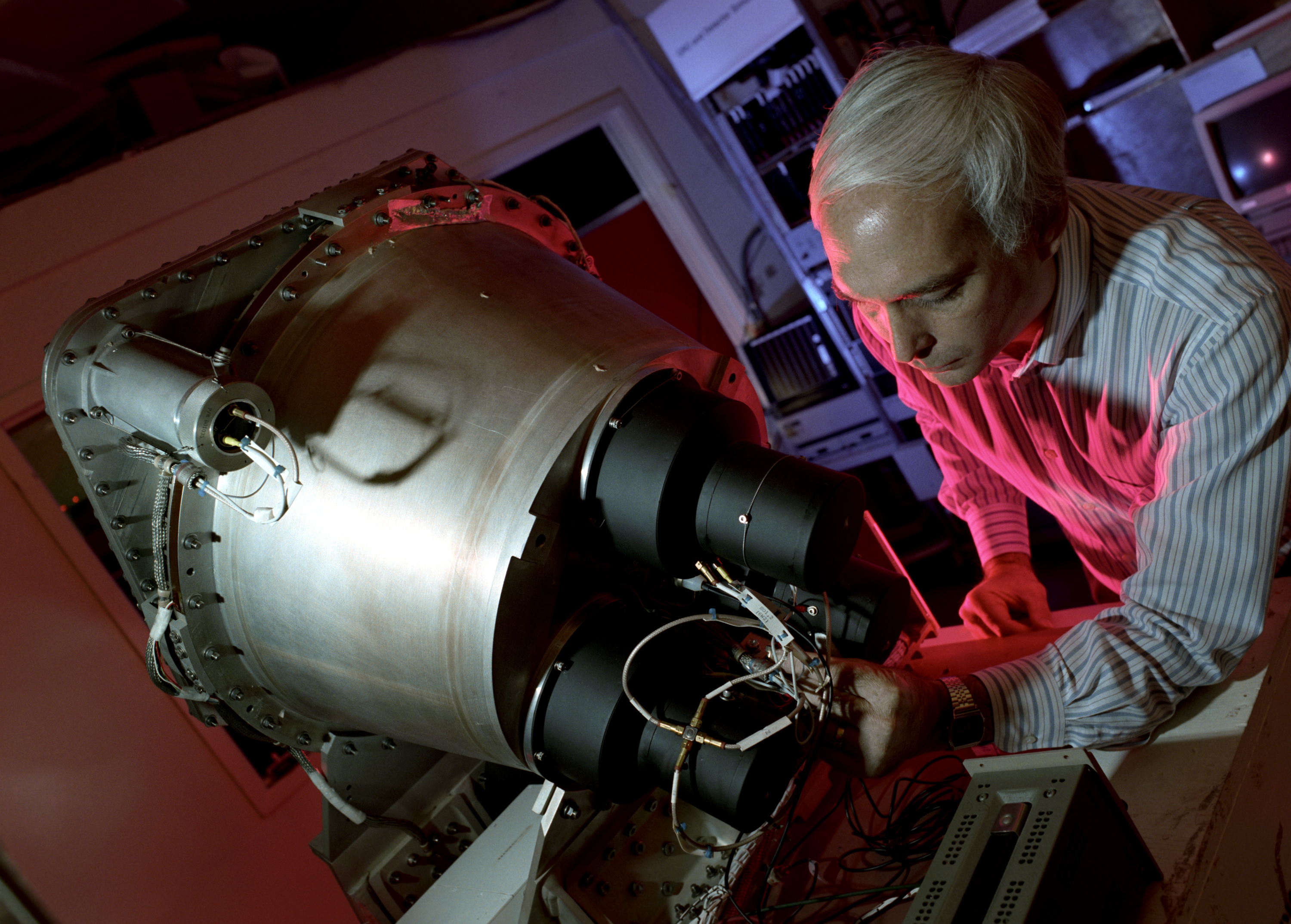 In this photograph, Dr. Gerald Fishman of the Marshall Space Flight Center (MSFC), a principal investigator of the Compton Gamma-Ray Observatory's (GRO's) instrument, the Burst and Transient Source Experiment (BATSE), works on the BATSE detector module. For nearly 9 years, GRO's BATSE, designed and built by MSFC, kept an unblinking watch on the universe to alert scientist to the invisible, mysterious gamma-ray bursts. By studying gamma-rays from objects like black holes, pulsars, quasars, neutron stars, and other exotic objects, scientists could discover clues to the birth, evolution, and death of star, galaxies, and the universe. The gamma-ray instrument was one of four major science instruments aboard the Compton. It consisted of eight detectors, or modules, located at each corner of the rectangular satellite to simultaneously scan the entire universe for bursts of gamma-rays ranging in duration from fractions of a second to minutes. Because gamma-rays are so powerful, they pass through conventional telescope mirrors. Instead of a mirror, the heart of each BATSE module was a large, flat, transparent crystal that generated a tiny flash of light when struck by a gamma-ray. With an impressive list of discoveries and diverse accomplishments, BATSE could claim to have rewritten astronomy textbooks. Launched aboard the Space Shuttle Orbiter Atlantis during the STS-35 mission in April 1991, the GRO reentered the Earth's atmosphere and ended its successful 9-year mission in June 2000.